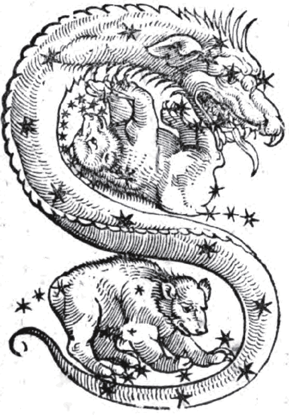 The Dragon's Head and Tail, from Guido Bonatti Liber Astronomiae